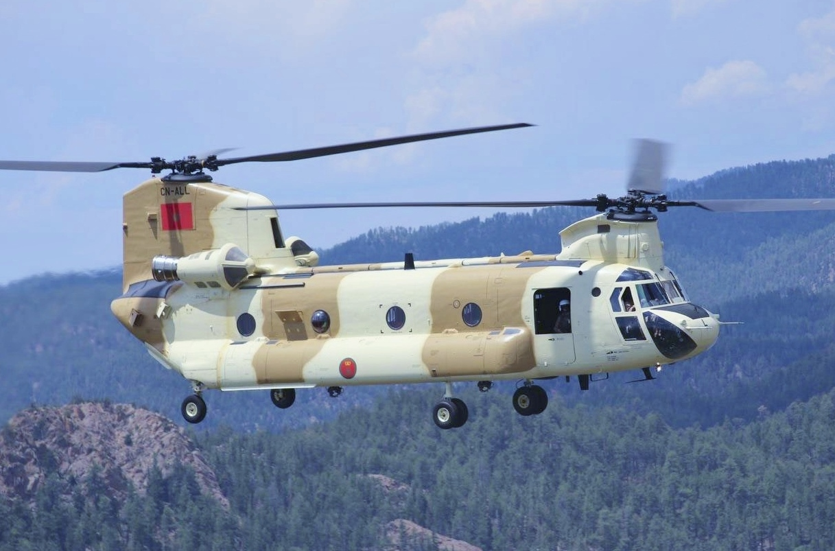 A Moroccan refurbished CH-47